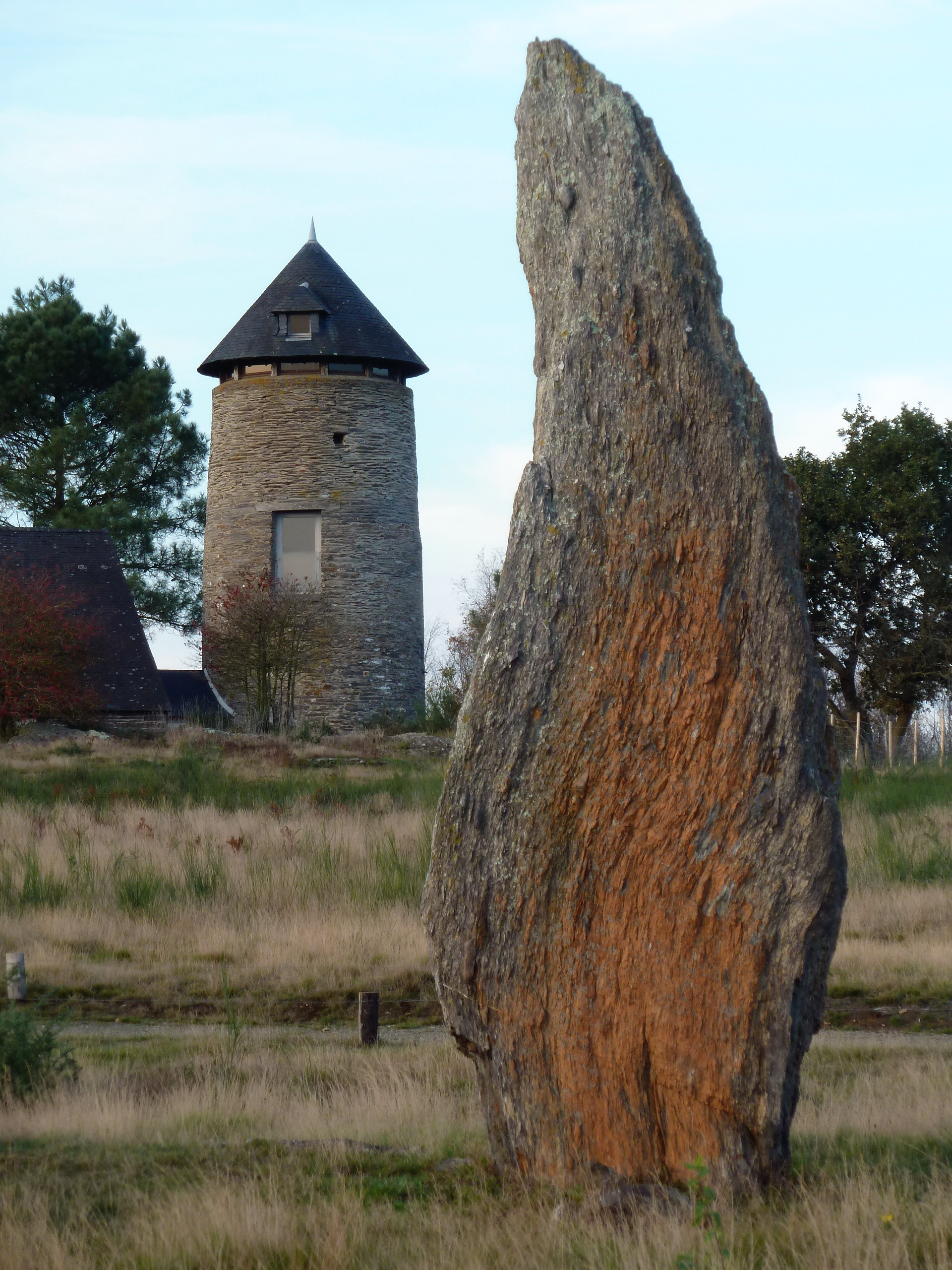 The windmill of Cojoux and one of the Menhir, flame-shaped, from the south stone row of Moulin's (Mill's) alignments in the Landes de Cojoux (Cojoux's moorland) , Saint-Just, Brittany, France.